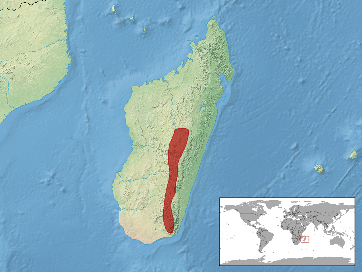 geographic distribution of Amphiglossus macrocercus